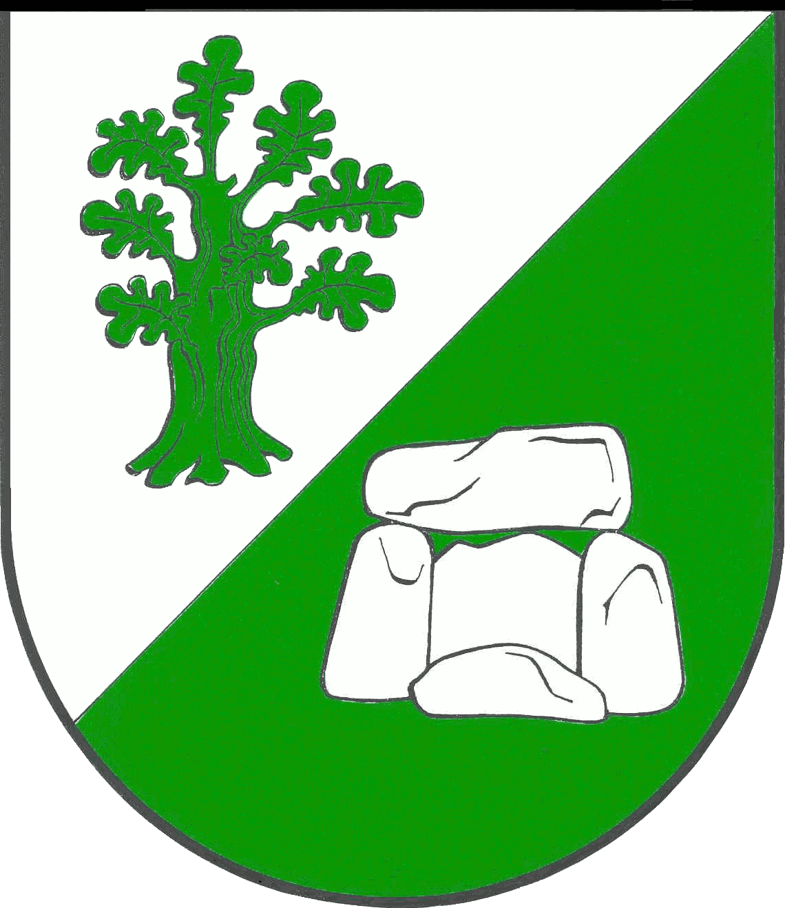 Coat of arms of the municipality Hüsby in Schleswig-Holstein, Germany